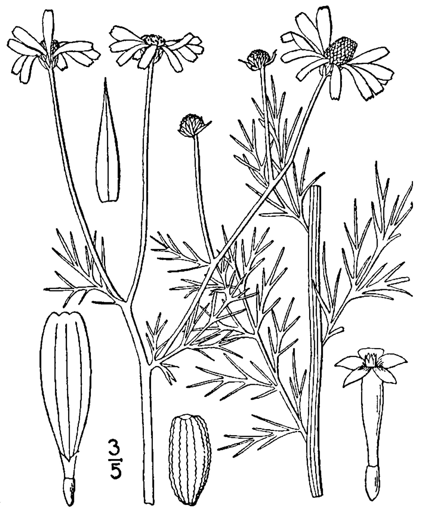 Anthemis cotula